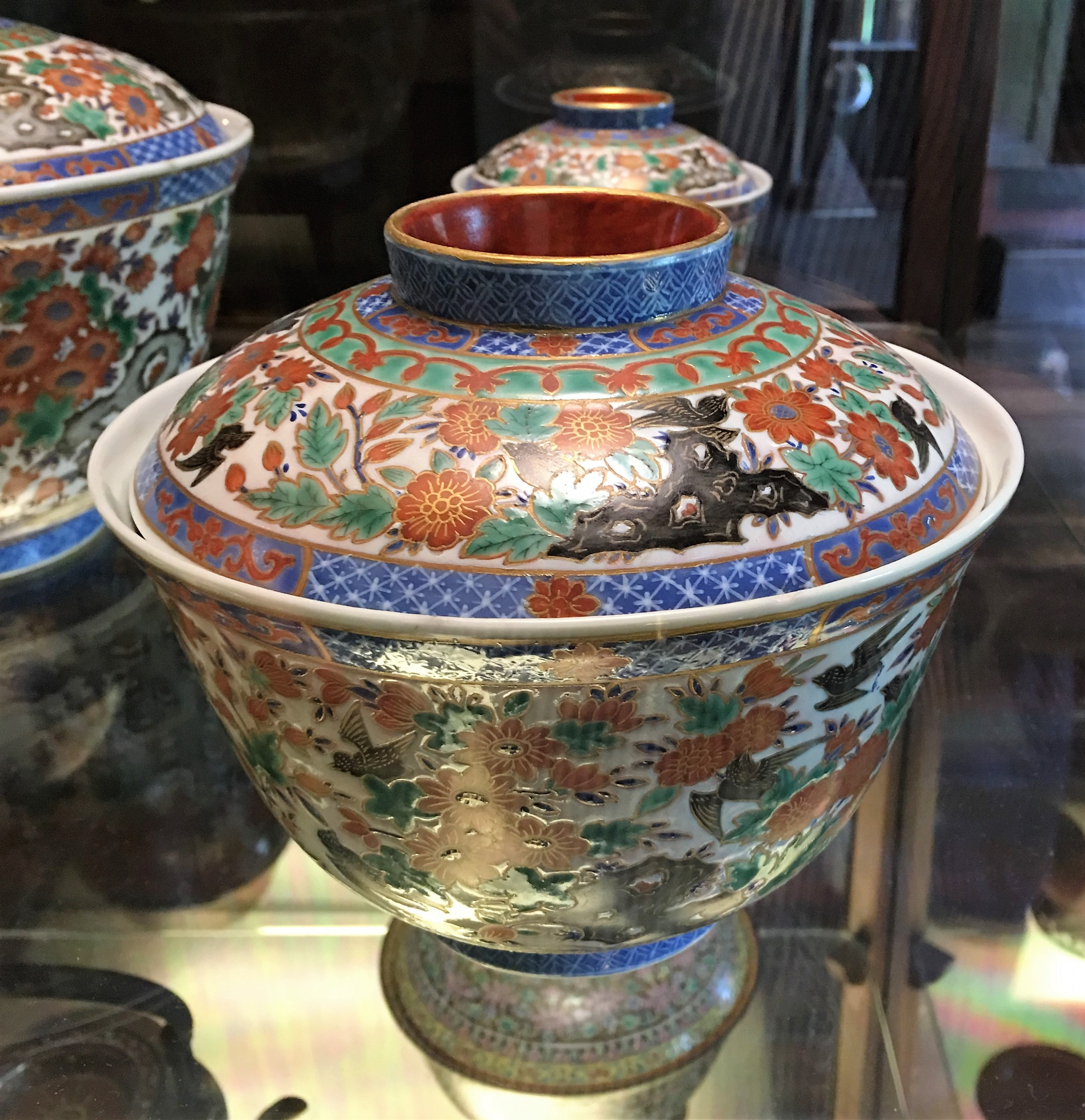 "Benjarong" style porcelain / ceramics, from the Jim Thompson House collection. Benjarong style of 17-19th century (Ayuthaya) was Thai design, but produced in China (Canton) for export exclusively to Thailand. The pentachromatic style (red, black, blue, green, yellow), was named from Sanskrit words for "five colours". Bangkok, Thailand.